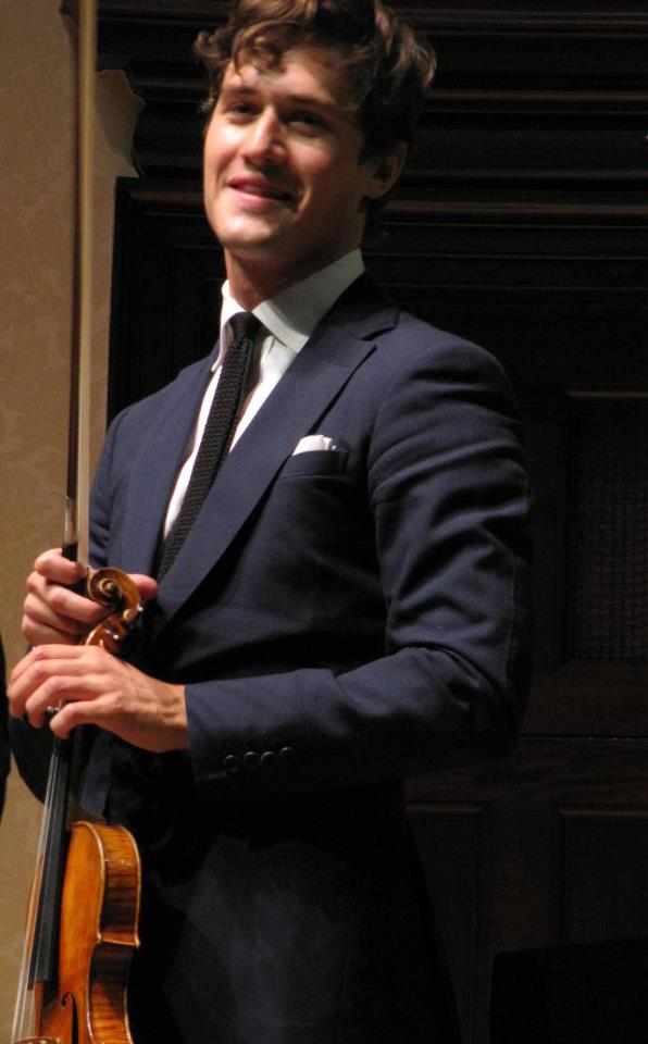 Charlie Siem Sep 23rd 2012 - His Wigmore Hall debut performing together with Itamar Golan